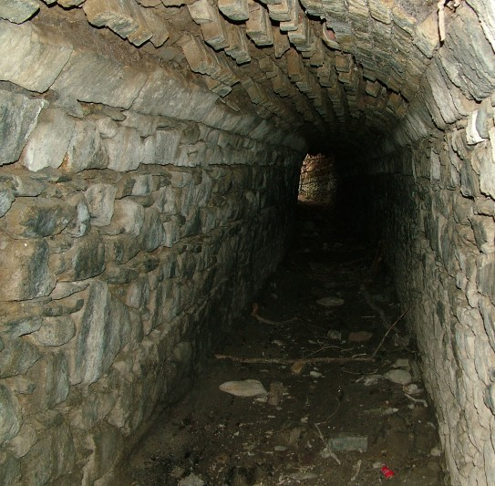 Inside the flue at Ballycorus lead mines, Co. Dublin